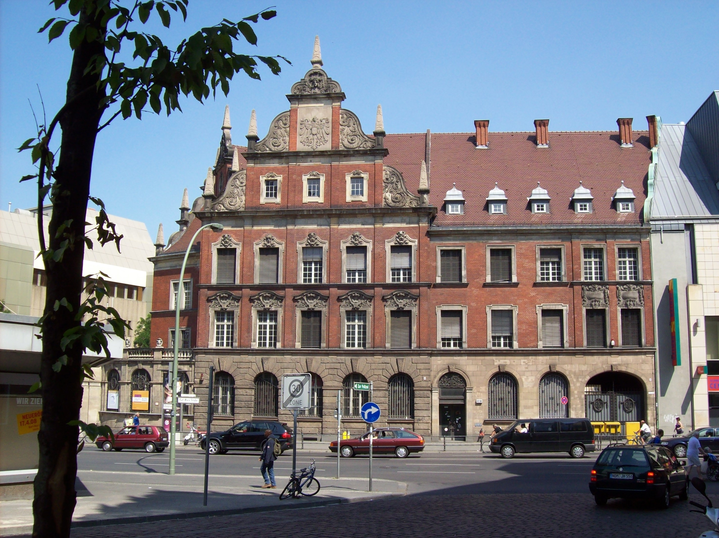 The Alte Post, Karl-Marx-Straße 97 Berlin-Neukölln